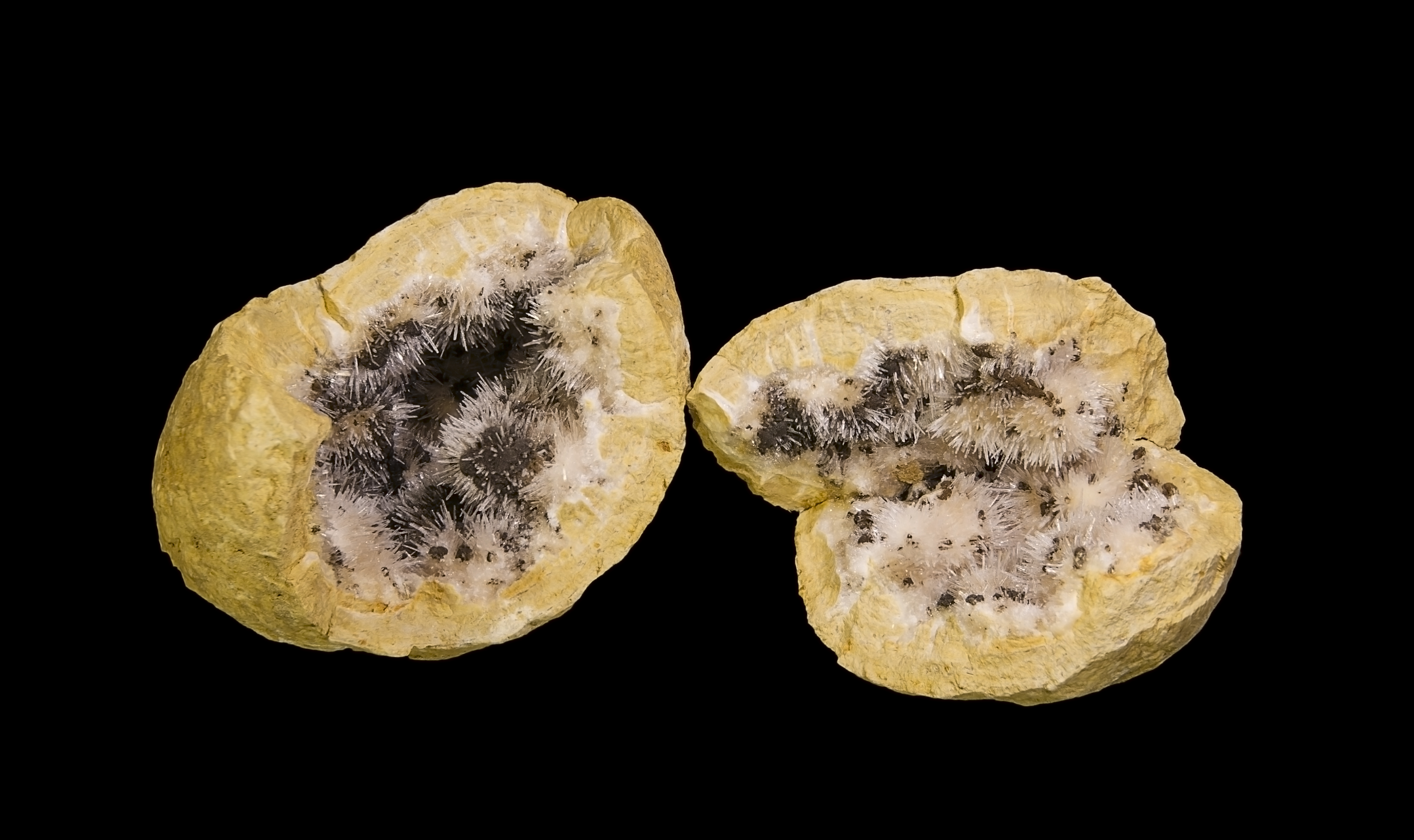 Kutnohorite, Aragonite Locality: Levane, Bucine, Valdarno (Val d'Arno), Arezzo Province, Tuscany, Italy Size Geode closed 4.4x4.1x3.0 cm) Two carbonate geode halves lined with tan, radial clusters covered with sparkly and transparent aragonite needles and richly dusted with lustrous, brown botryoidal kutnohorite. These fine pieces are from the well-known lignite mines of Levane, Tuscany, Italy. The locality was featured in a 1994 Mineralogical Record article.